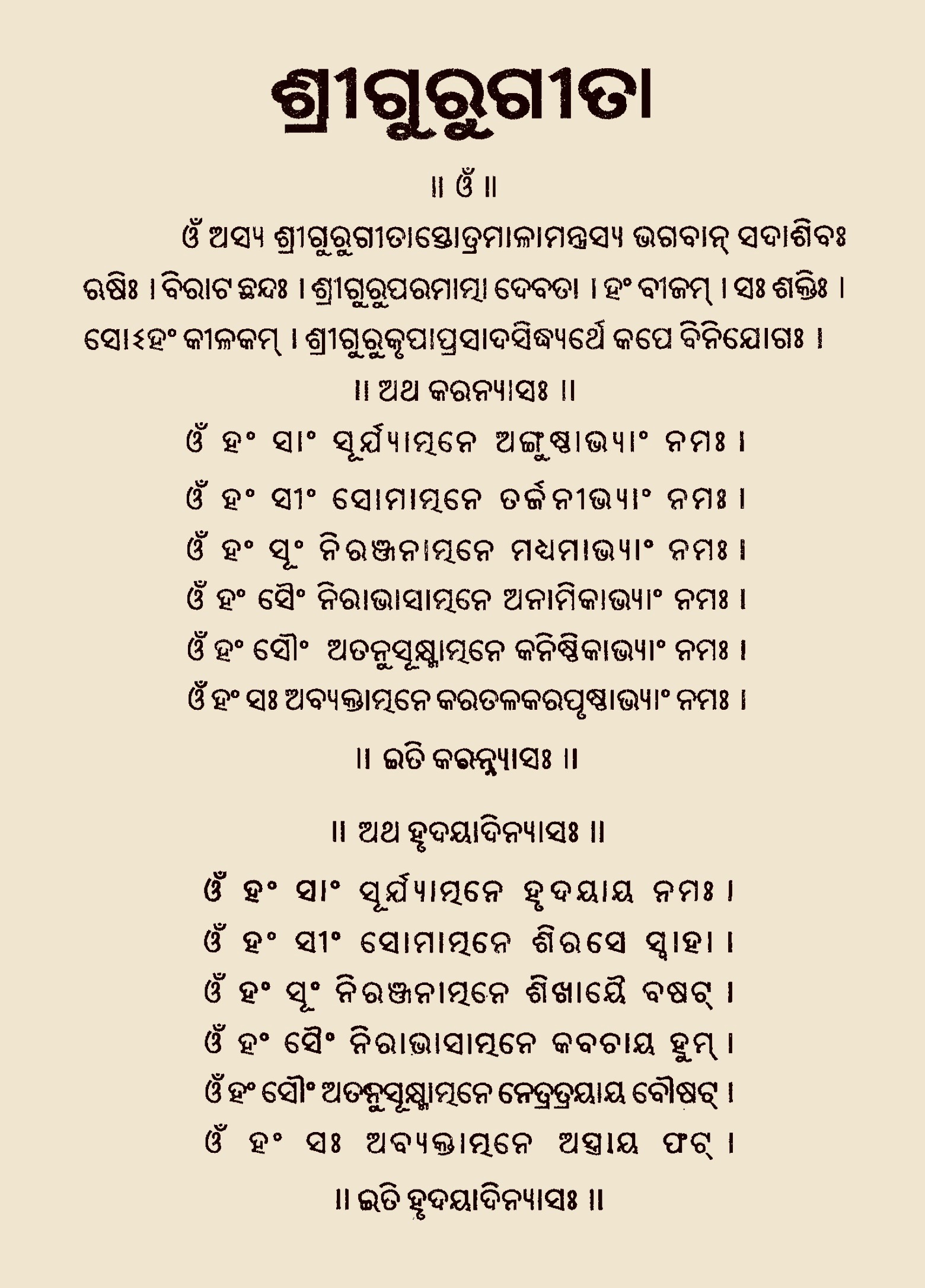 This is a Sanskrit manuscript in Telugu script. The colophon states it is Telang lipi. The text is a section of the Skanda Purana, and praises a teacher-counsellor (guru). This manuscript was acquired in the 19th-century, and was produced in or before the acquisition. The photo above is of a 2D artwork from the text that was itself authored more than 500 years ago. Therefore Wikimedia Commons PD-Art licensing guidelines apply. Any rights I have as a photographer is herewith donated to wikimedia commons under CC 4.0 license.